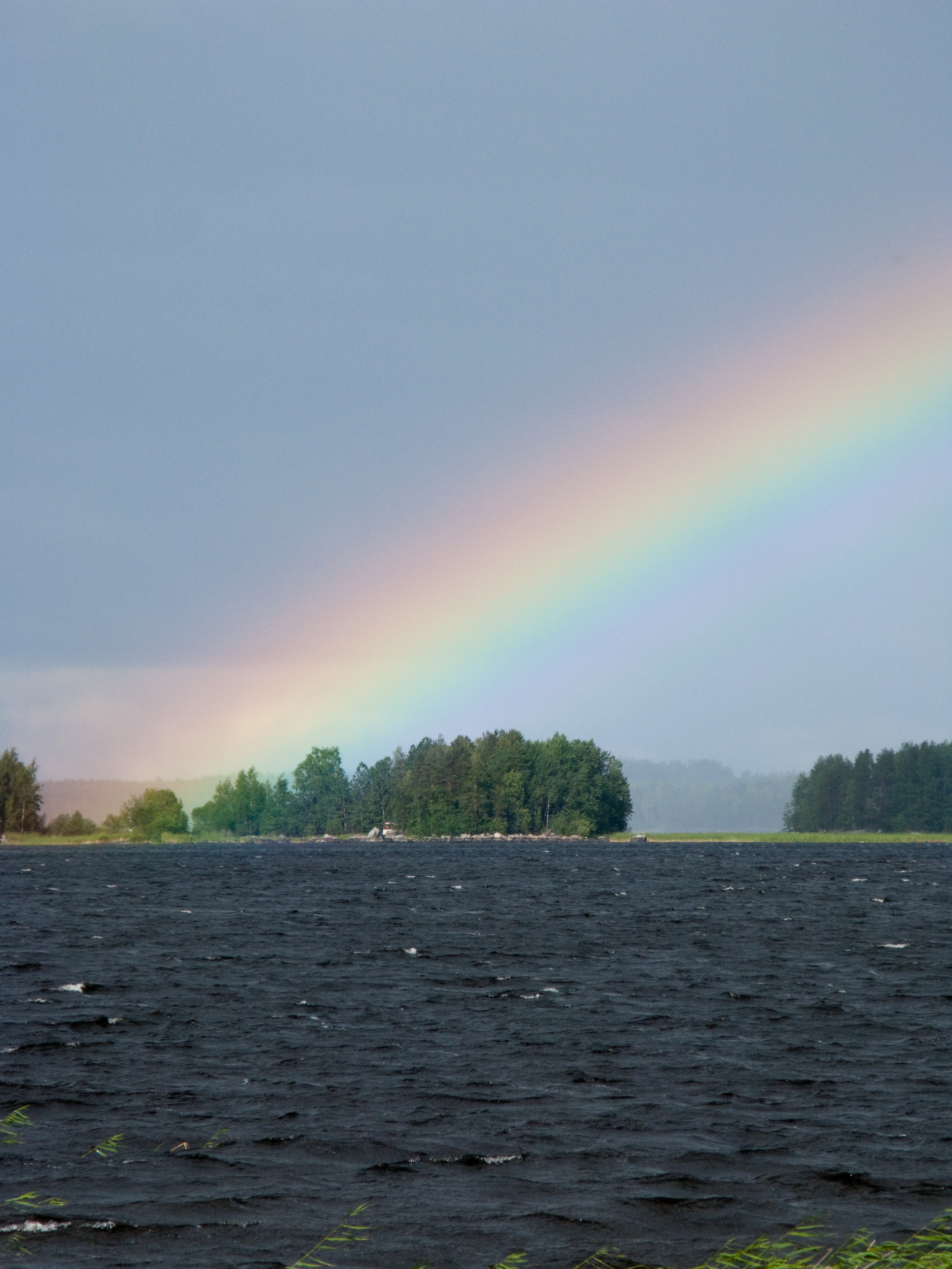 Rainbow in Lake Leppävesi in Jyväskylä, Finland